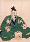 Kikuchi Takanao